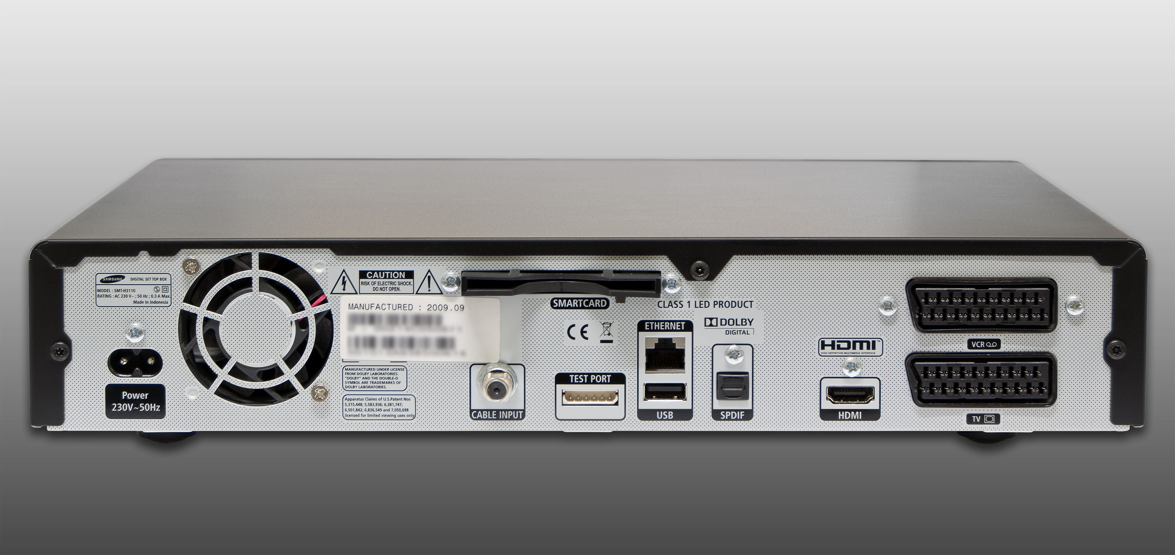 Image showing rear connections of a Samsung Virgin V+HD Box.